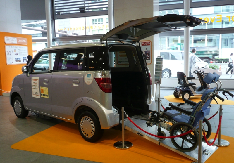 Honda Zest wheelchair edition.